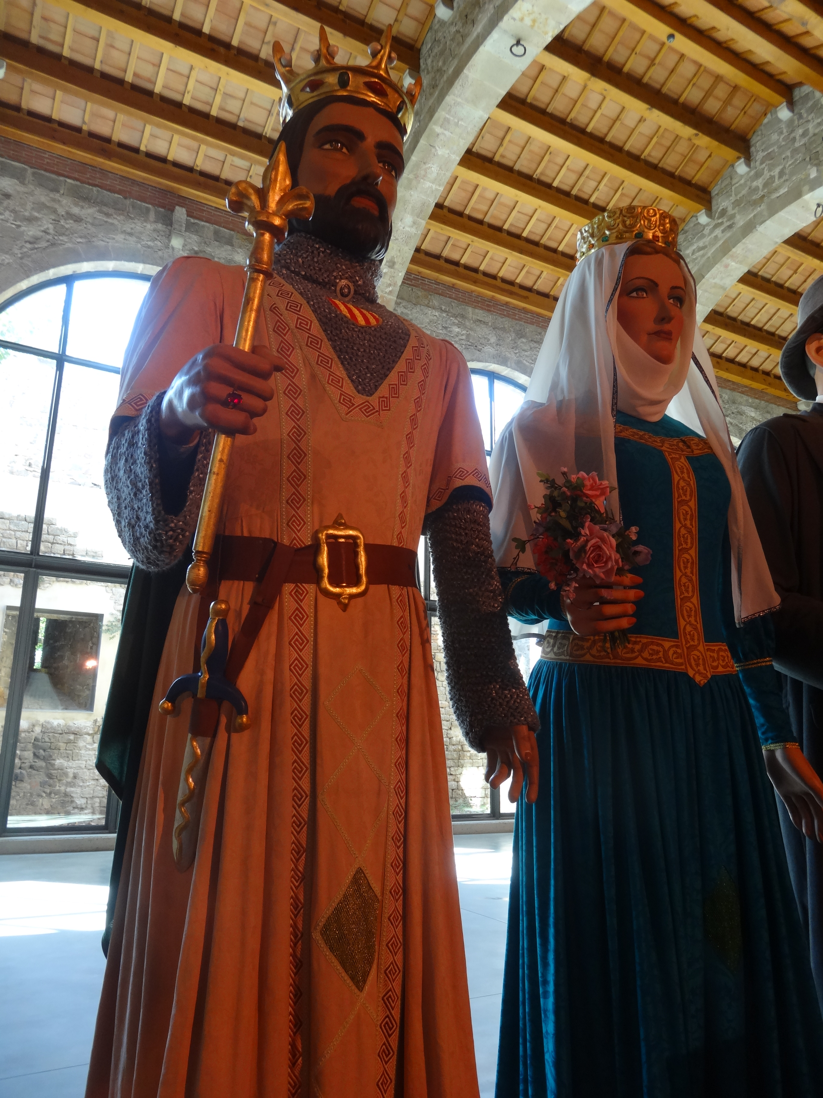 Exhibition of Giants at the Museu Marítim, Barcelona, 2013.